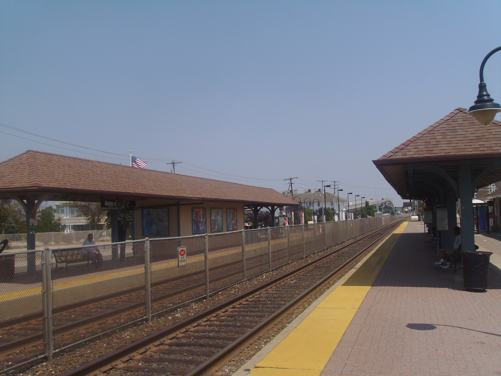 The station at Belmar, New Jersey for New Jersey Transit's North Jersey Coast Line. New Jersey Transit's Bay Head local with multi-level train is approaching in the distance.